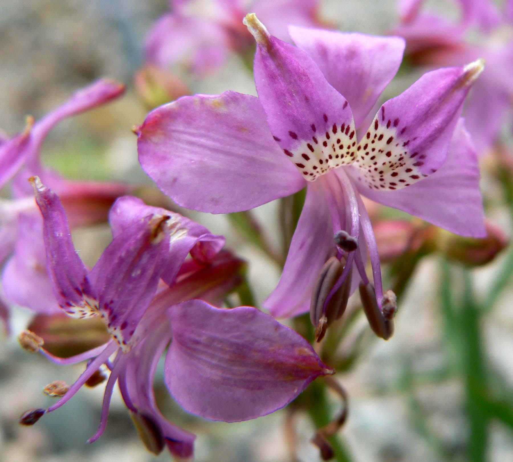 Photo of Alstroemeria revoluta at the UBC Botanical Garden